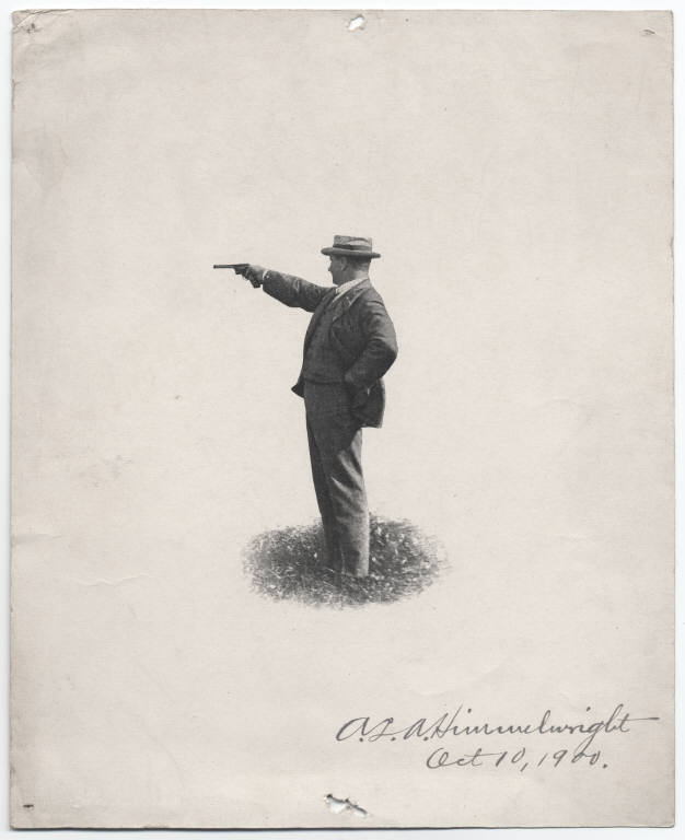 Photograph of author, marksman, and engineer, ALA Himmelwright